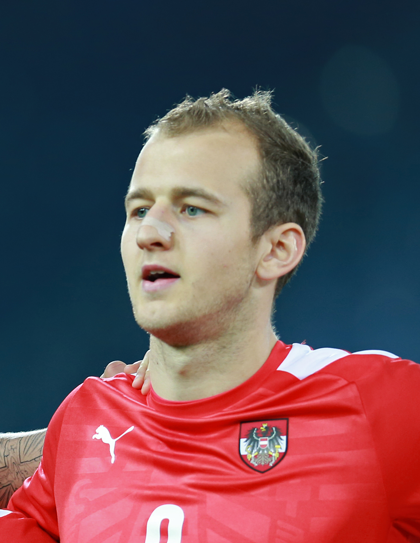 Gernot Trauner at national under-21 football game Albania vs. Austria in Graz, UPC Arena, 5. March 2014